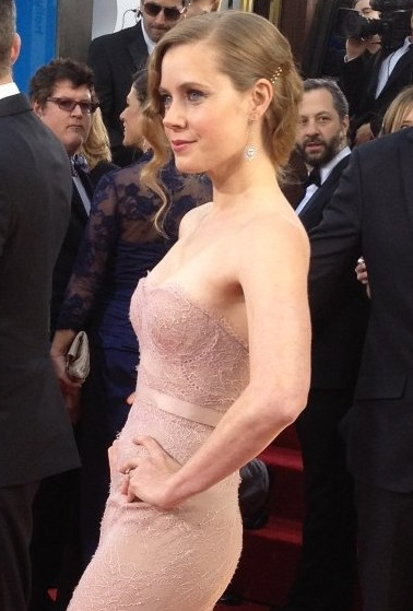 Amy Adams at the Golden Globes 2013.